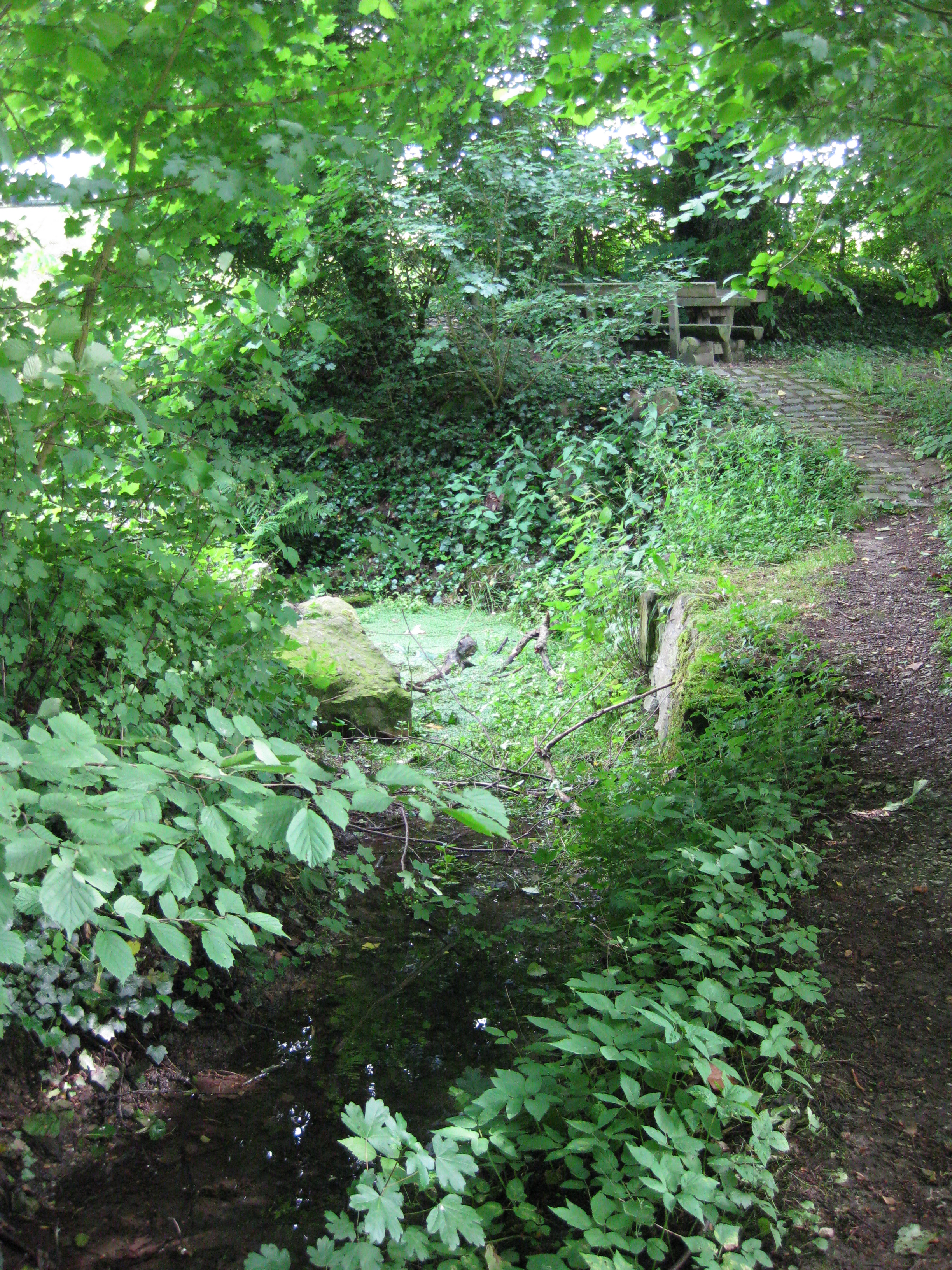 Melle-Wellingholzhausen - Spring of the river Hase